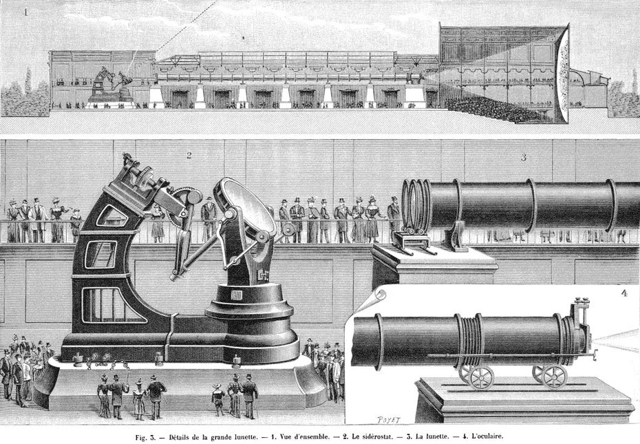 An engraving of the great telescope of the 1900 Paris Exposition universelle, showing an overall view (top); the siderostat (left) and lens tube (right); and the ocular lens end (inse